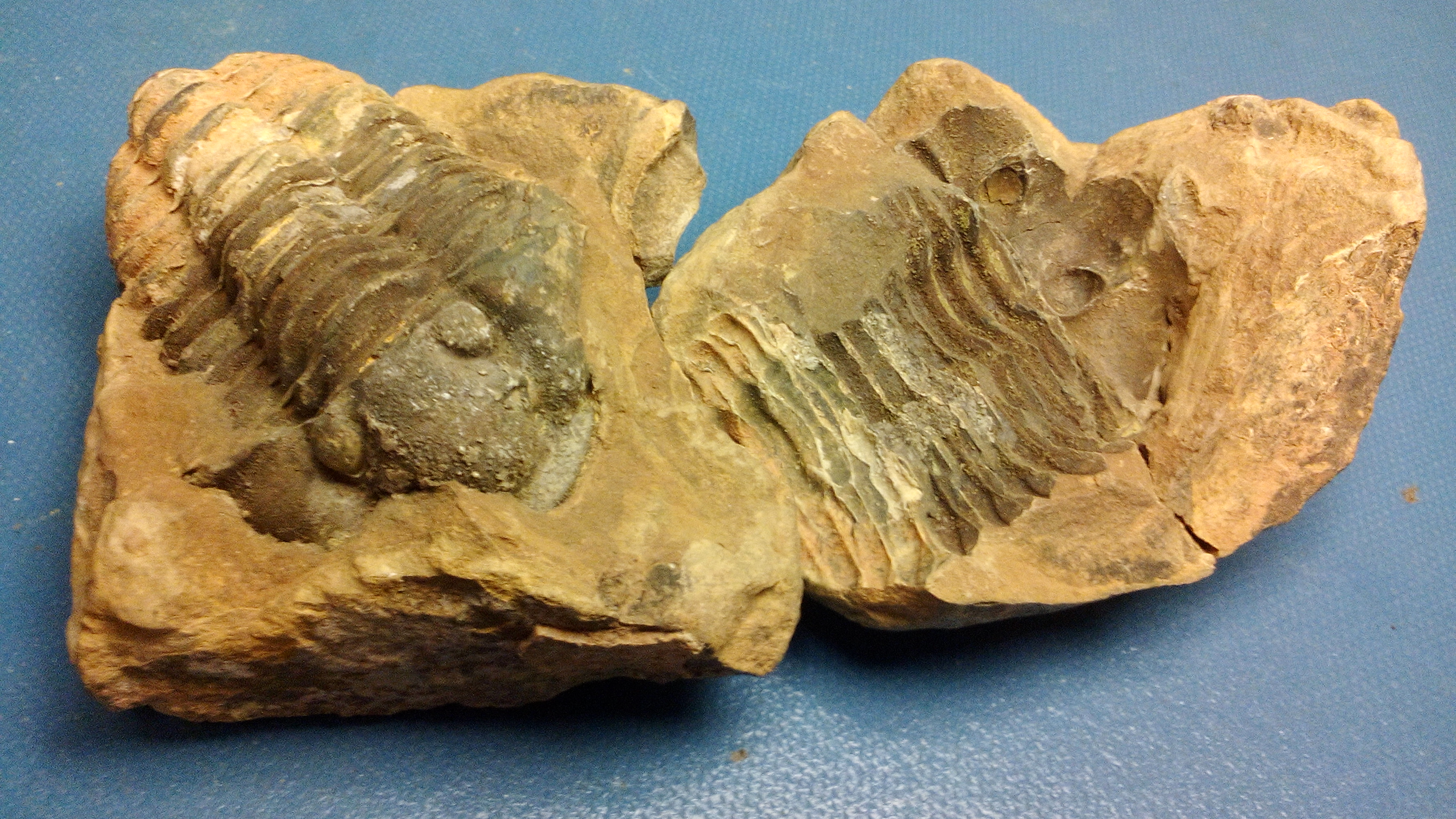 "Tobias" is a trilobite from the Calymene genus, Phacopida order, found in the Maidir basin, Morocco.